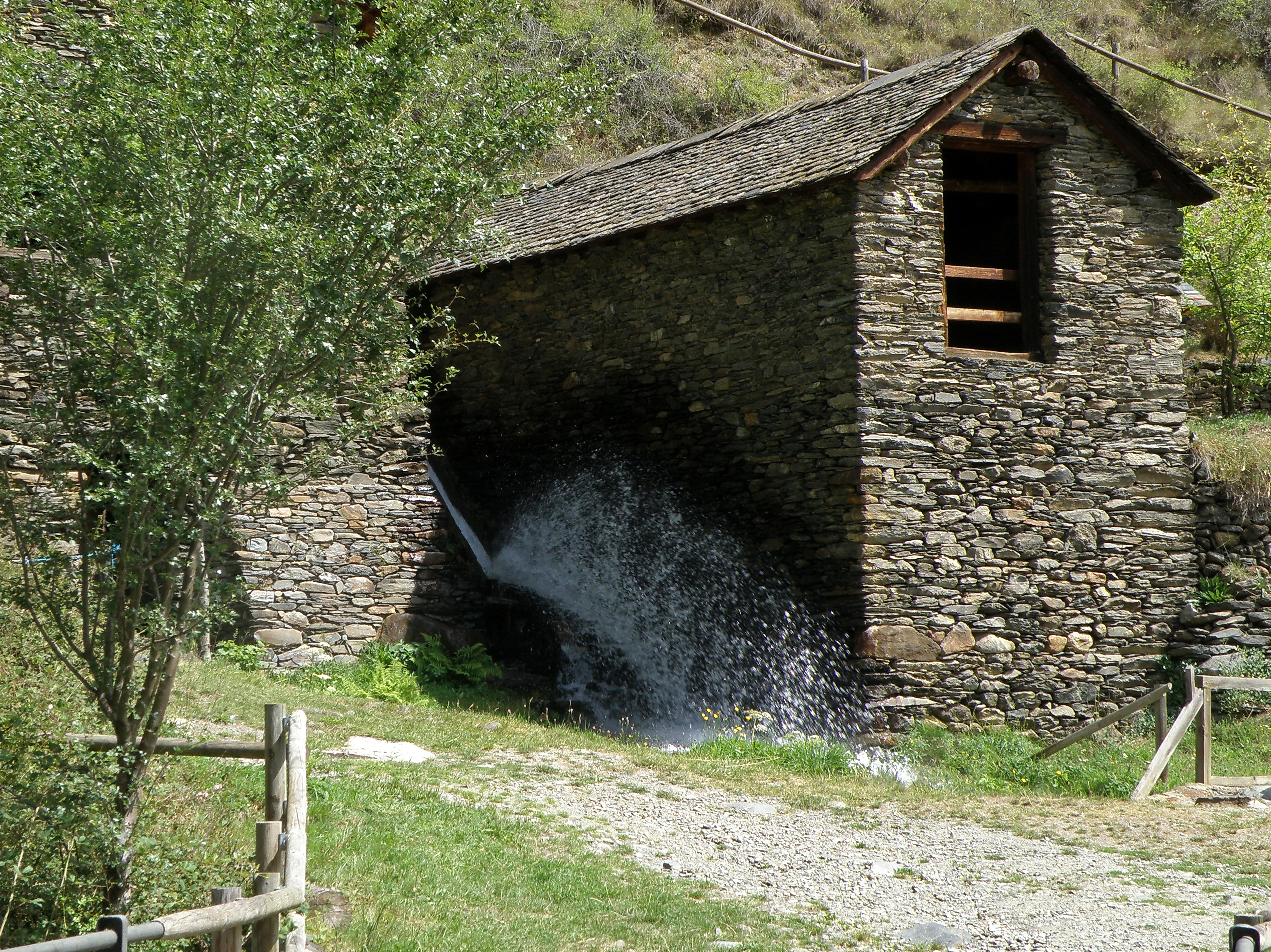 Woodmuseum at Àreu